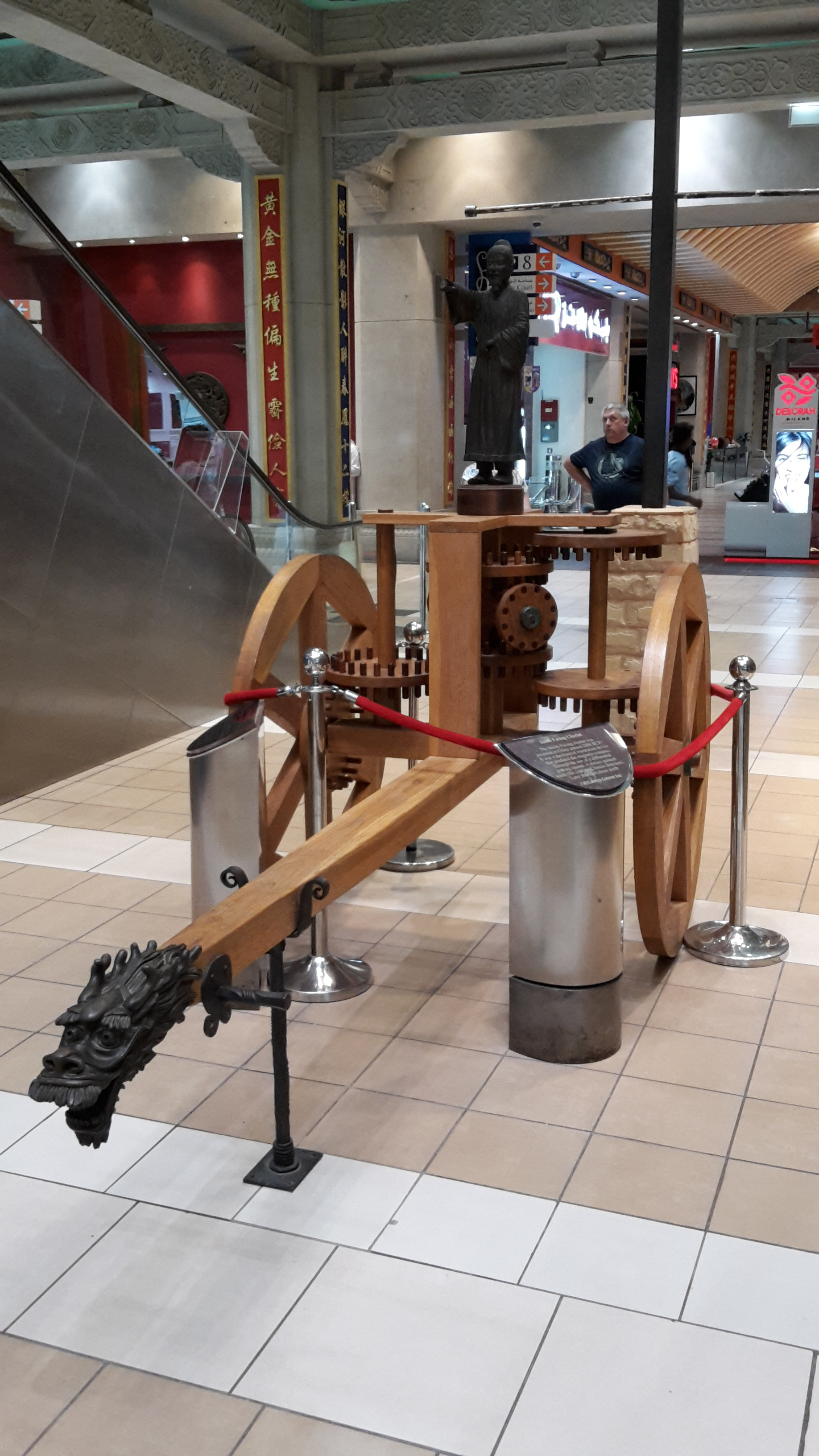 Replica of the South-pointing chariot in the China Court of the Ibn Battuta Mall, Dubai